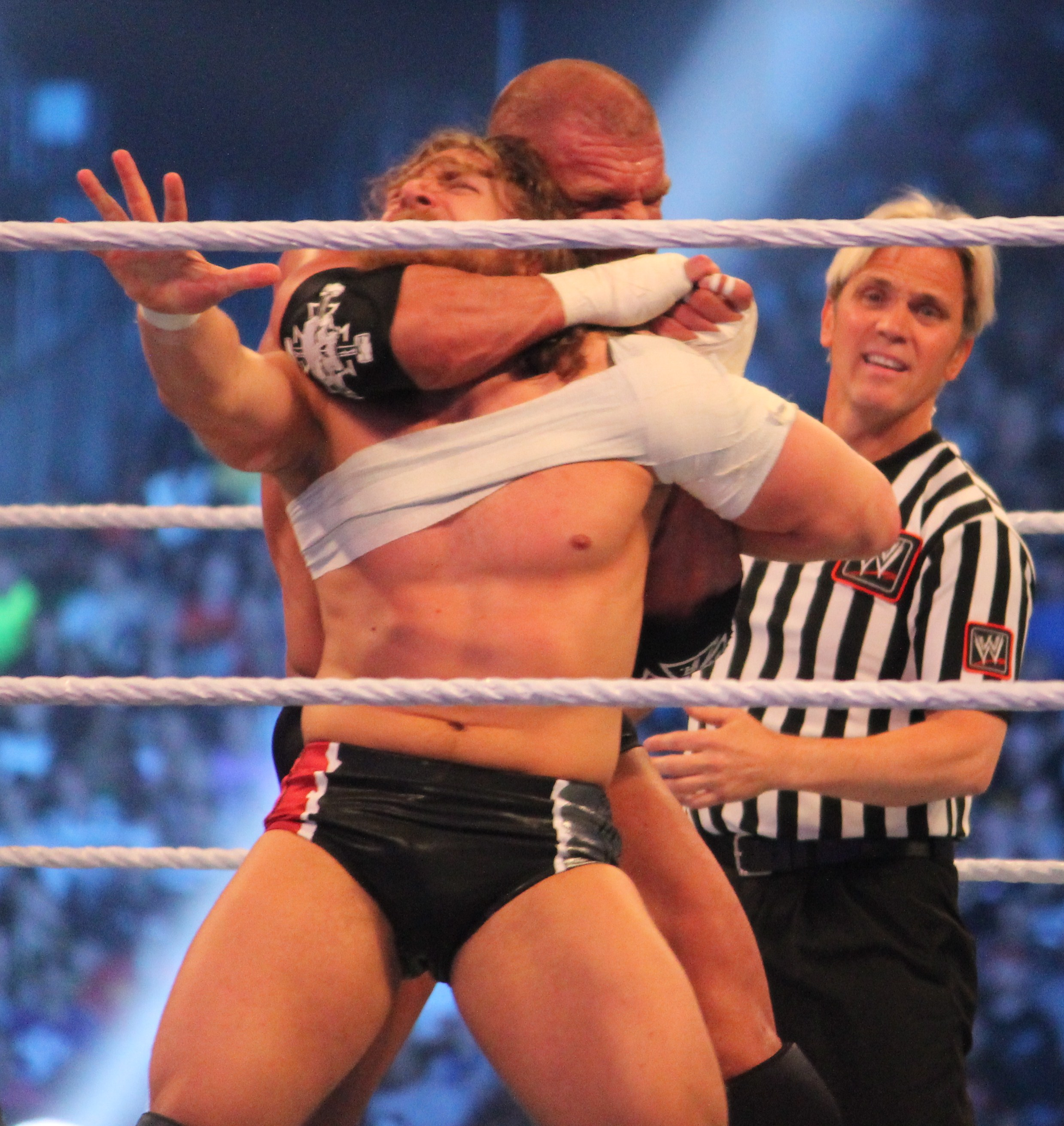 Triple H traps Daniel Bryan in a crossface chickenwing at WrestleMania XXX on 6 April 2014 in the Mercedes-Benz Superdome in New Orleans, Louisiana.